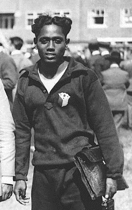 Anselmo Gonzaga at the 1928 Summer Olympics